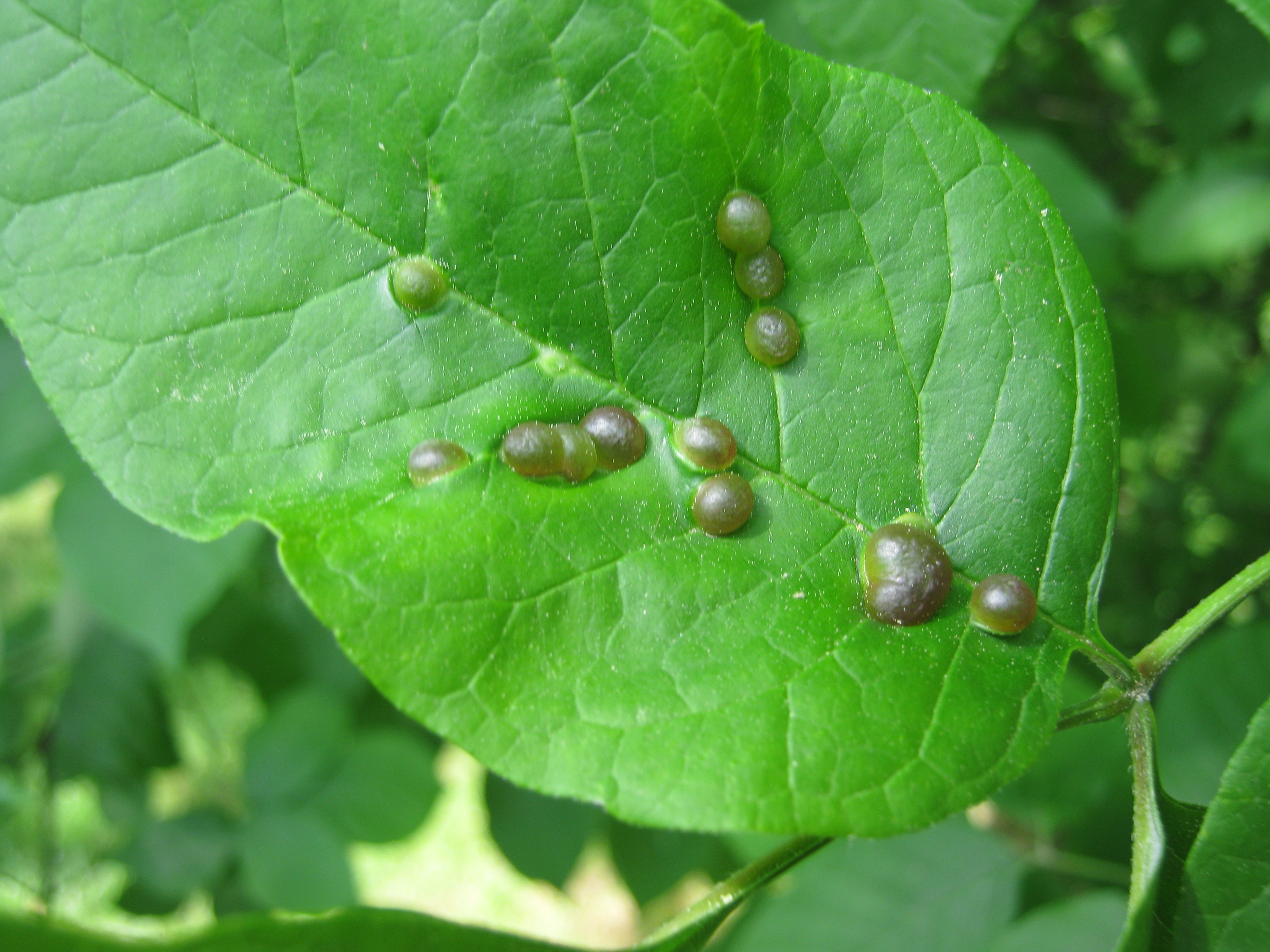 Dasineura pellex galls, about 5 mm, on leaf of ash tree (Fraxinus). Willow Grove, Montgomery County, Pennsylvania, USA.